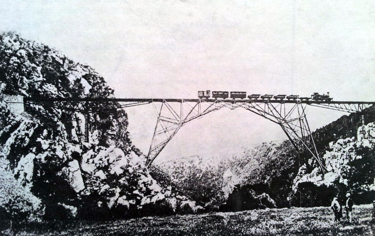 Kowie Railway 4-4-0T with mixed train on Blaauwkrantz Bridge